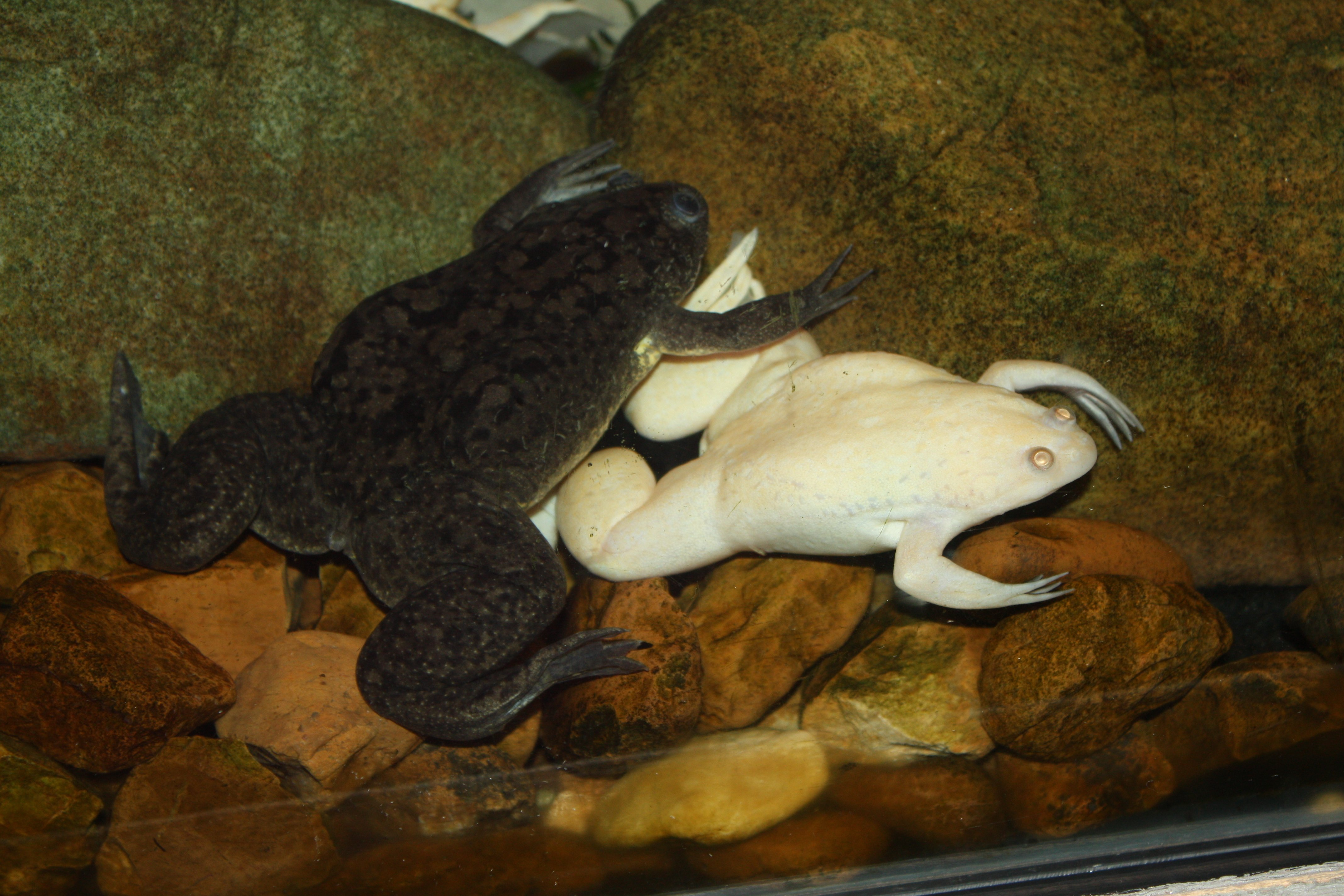 African Clawed Frog "Xenopus laevis" at Nashville Zoo